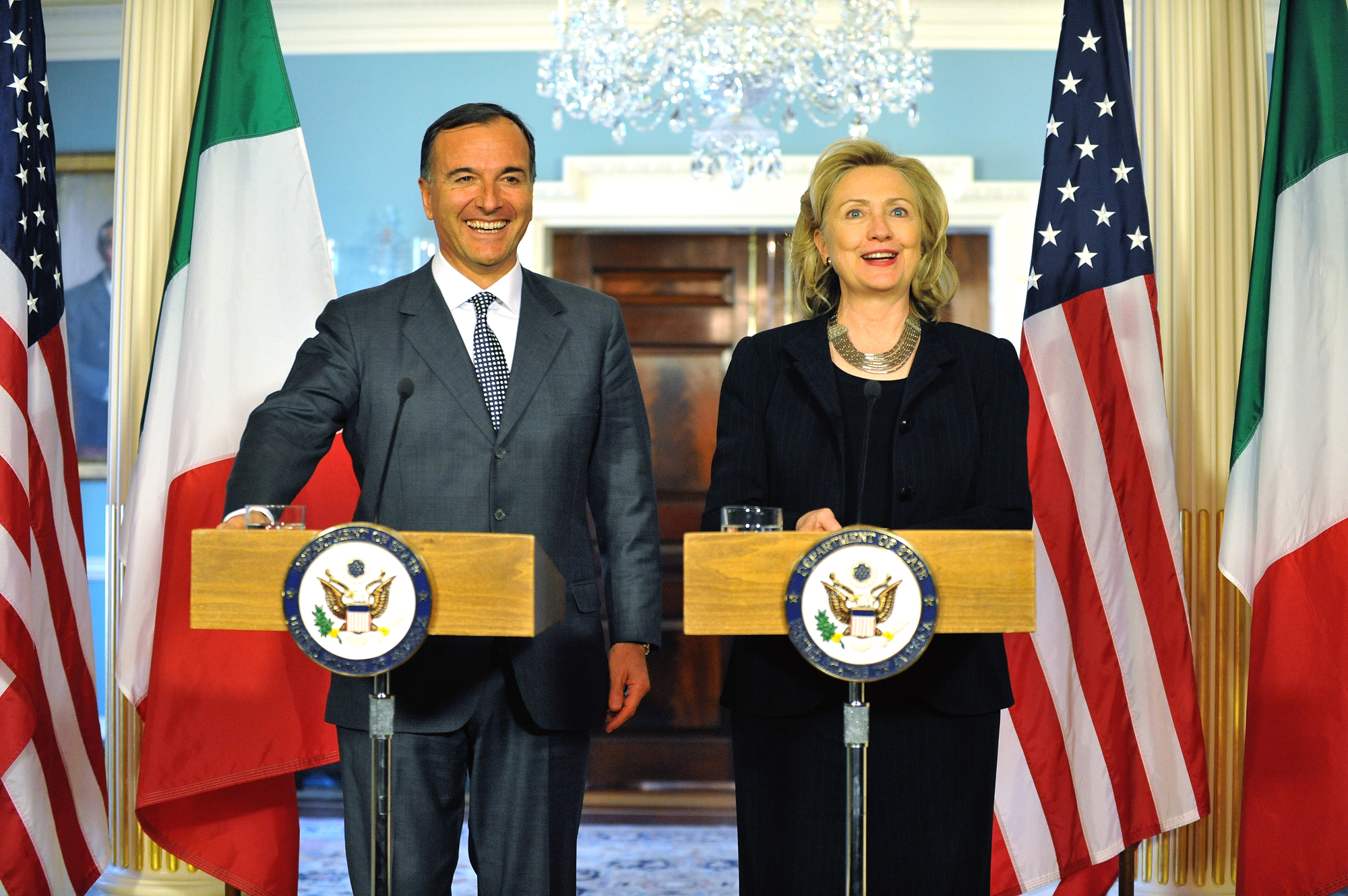 U.S. Secretary of State Hillary Rodham Clinton holds a joint press conference with Italian Foreign Minister Franco Frattini, at the U.S. Department of State in Washington, D.C., on April 6, 2011. [State Department photo/ Public Domain]